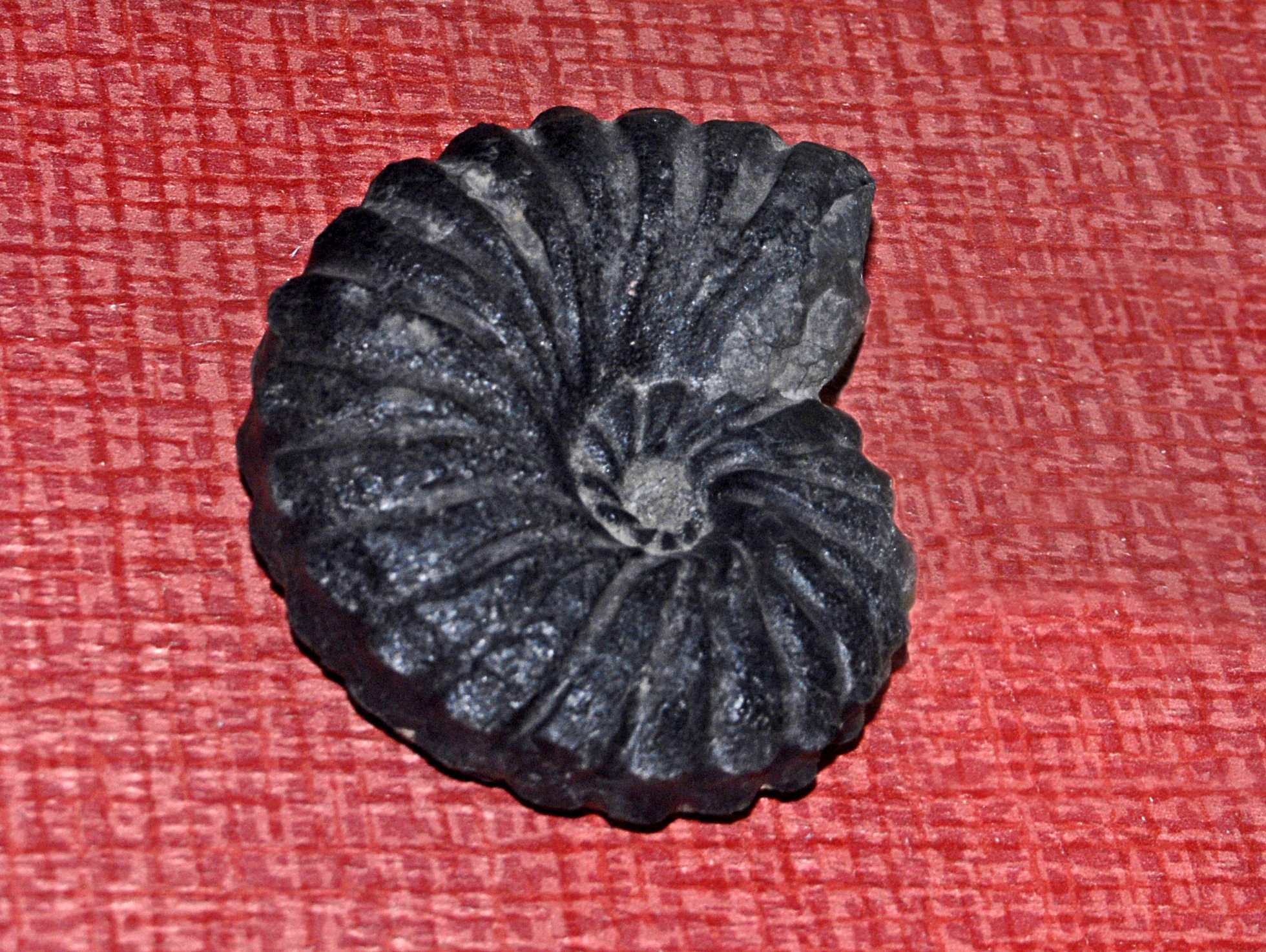 Fossil shell of Heinzia colleti from Colombia, on display at Gallery of Paleontology and Comparative Anatomy, Paris.